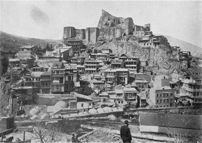 Fortress Narikala Tbilisi, Georgia